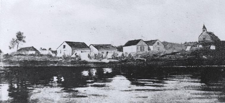 Photograph, HBC Post, Abitibi Lake, ON, copied about 1910, Anonymous, Silver salts on paper mounted on card - Gelatin silver process - 8 x 14 cm